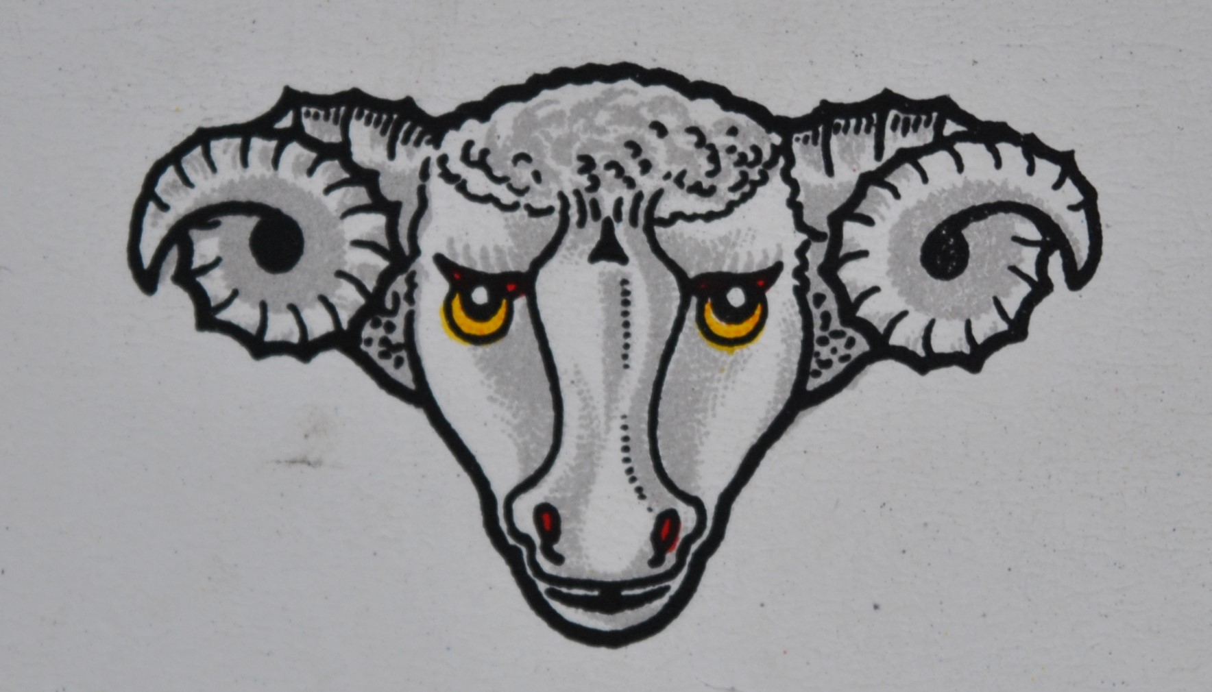 Division sign of the British 4th Division in World War 1